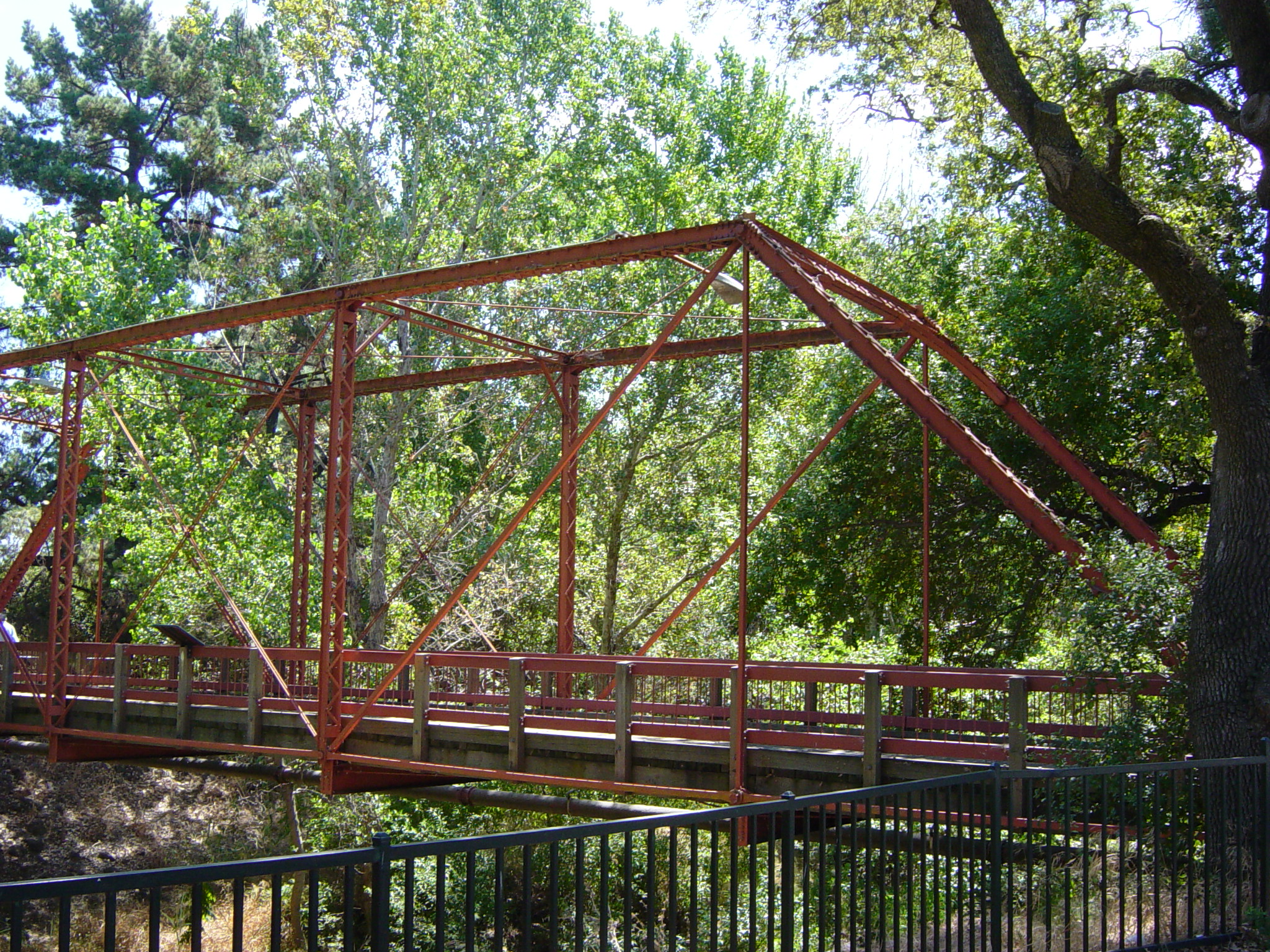 Light truss bridge - 7 US Ton (14,000lb) load limit. Image taken and uploaded by User:Leonard G.